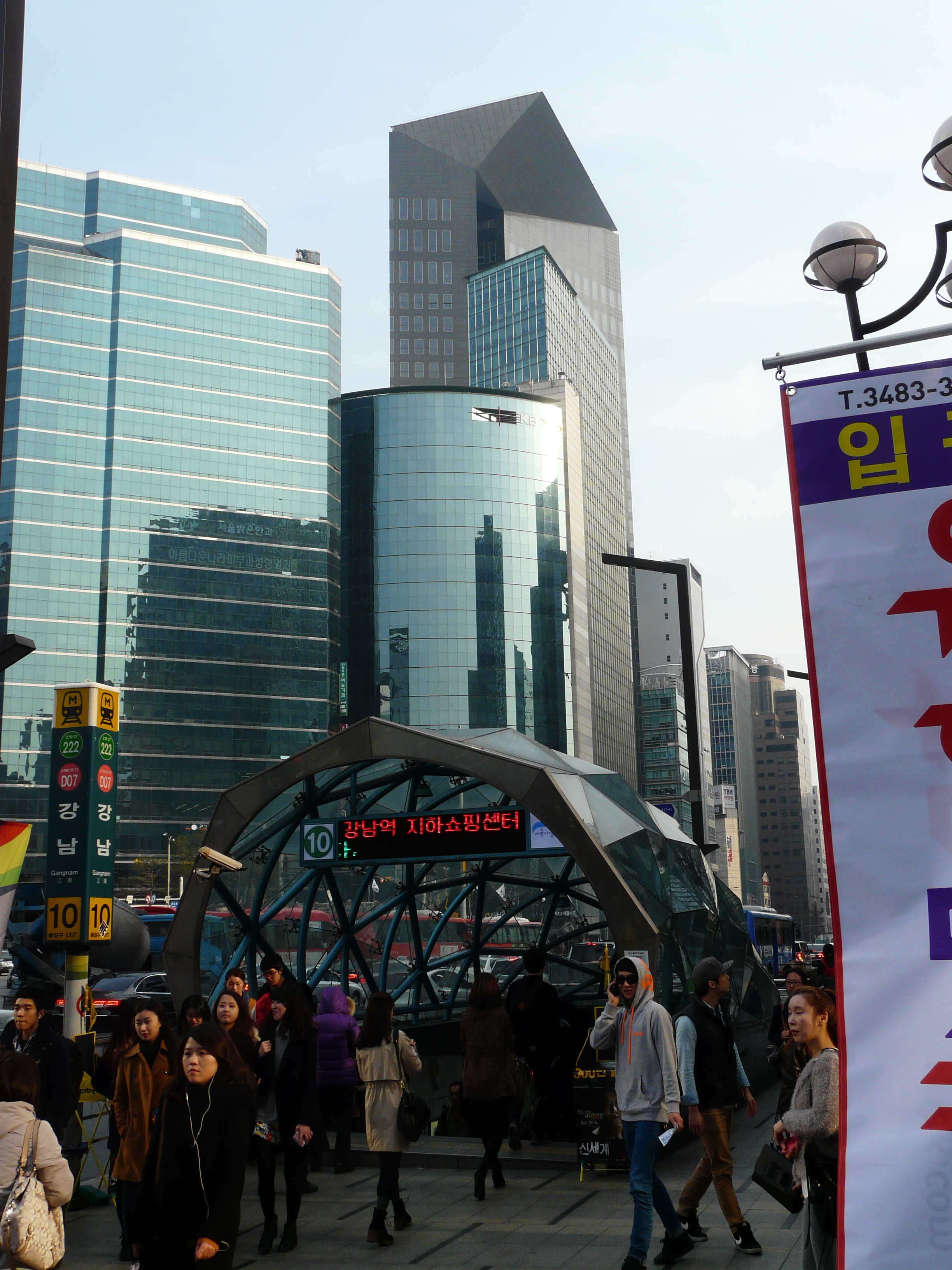 The no.10 entrance to Gangnam station(Seoul Metro Line 2 and Sinbundang Line)